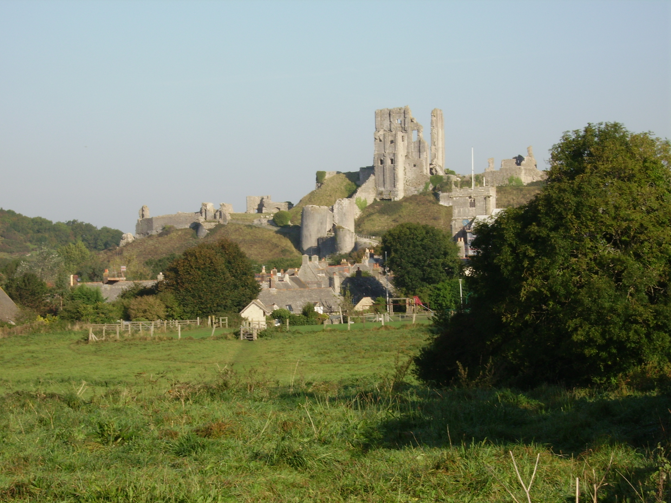 Corfe Castle from "the Halves"